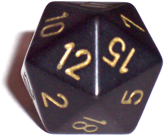 dice